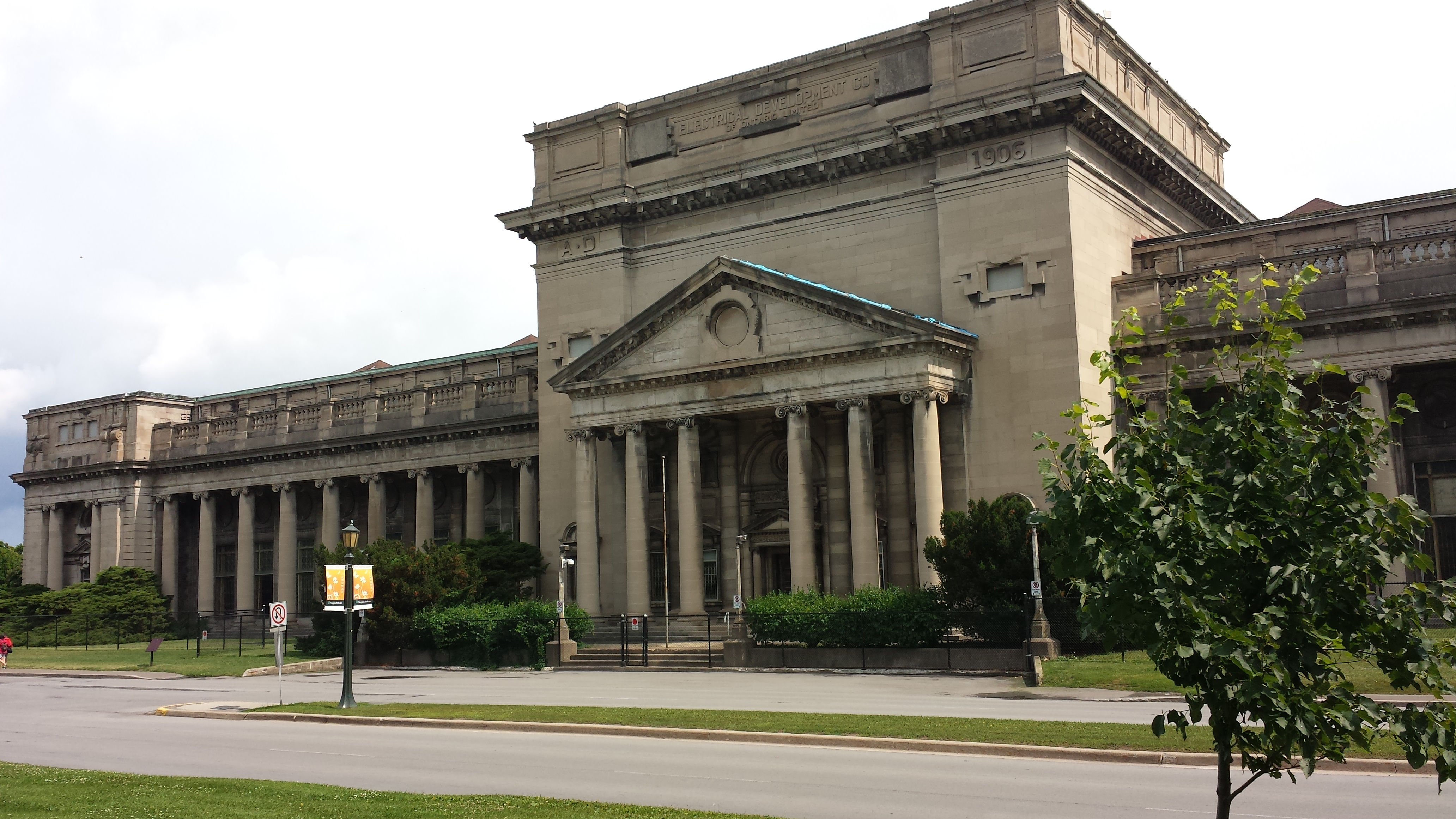 Historic Toronto Power Generating Station in Niagara Falls Ontario